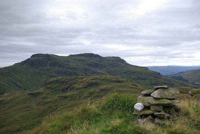 Summit cairn on Cruach nam Miseag with view to Beinn Bheula